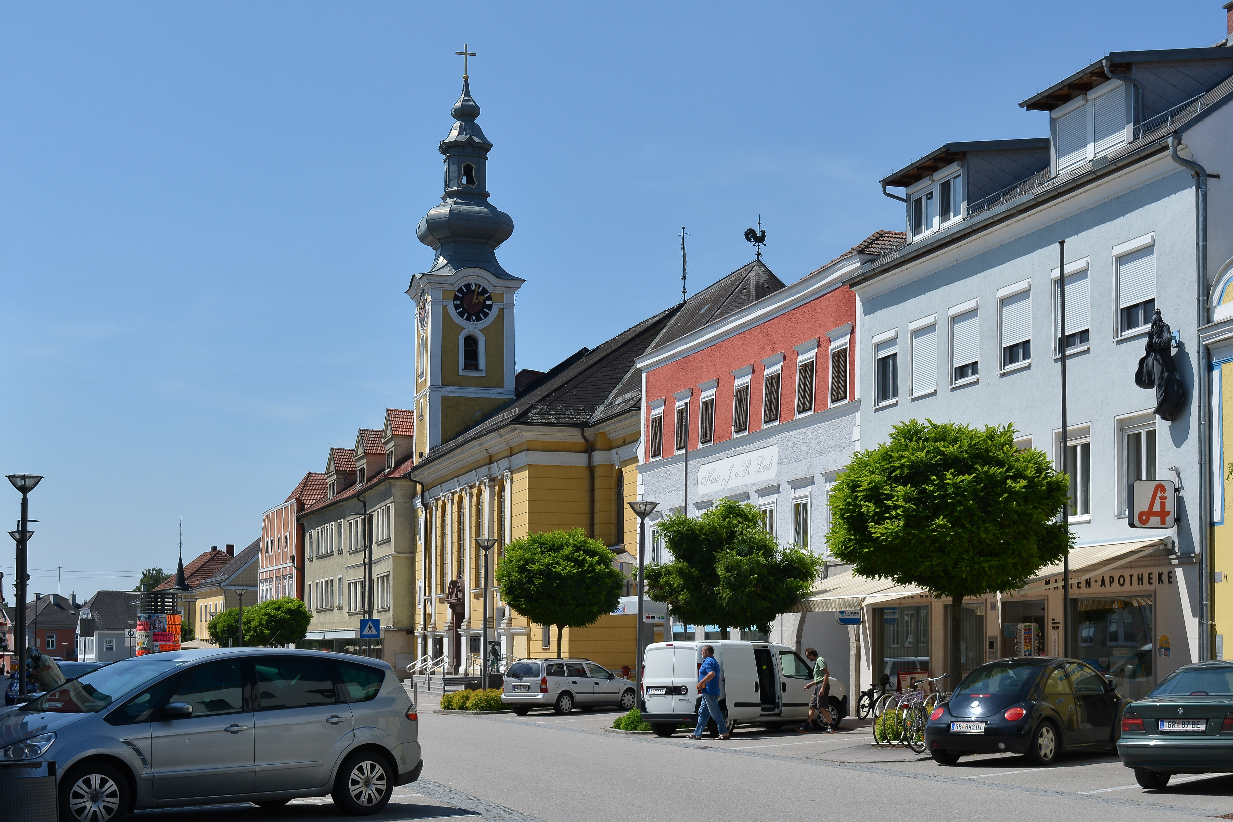 Main Square of Neumarkt im Hausruckkreis with cath. parish church.